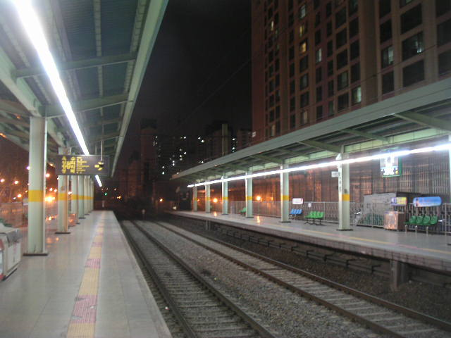 Seoul subway, Ichon station at line 1 in Seoul (South Korea)